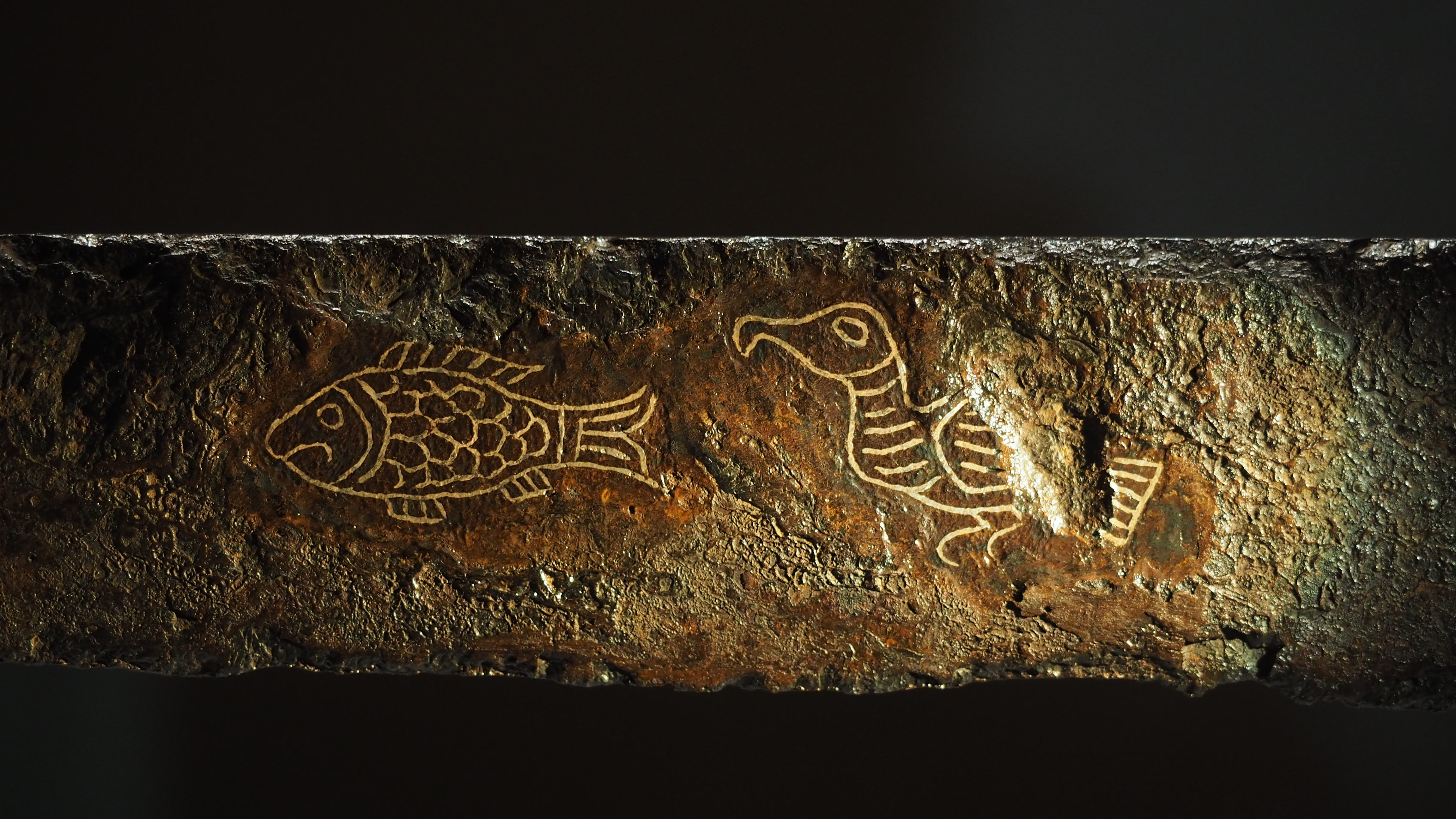 Ancient iron sword excavated from Etafunayama Kofun in Kumamoto Prefecture, Japan. There are charactors and images in silver inlay on the sword.